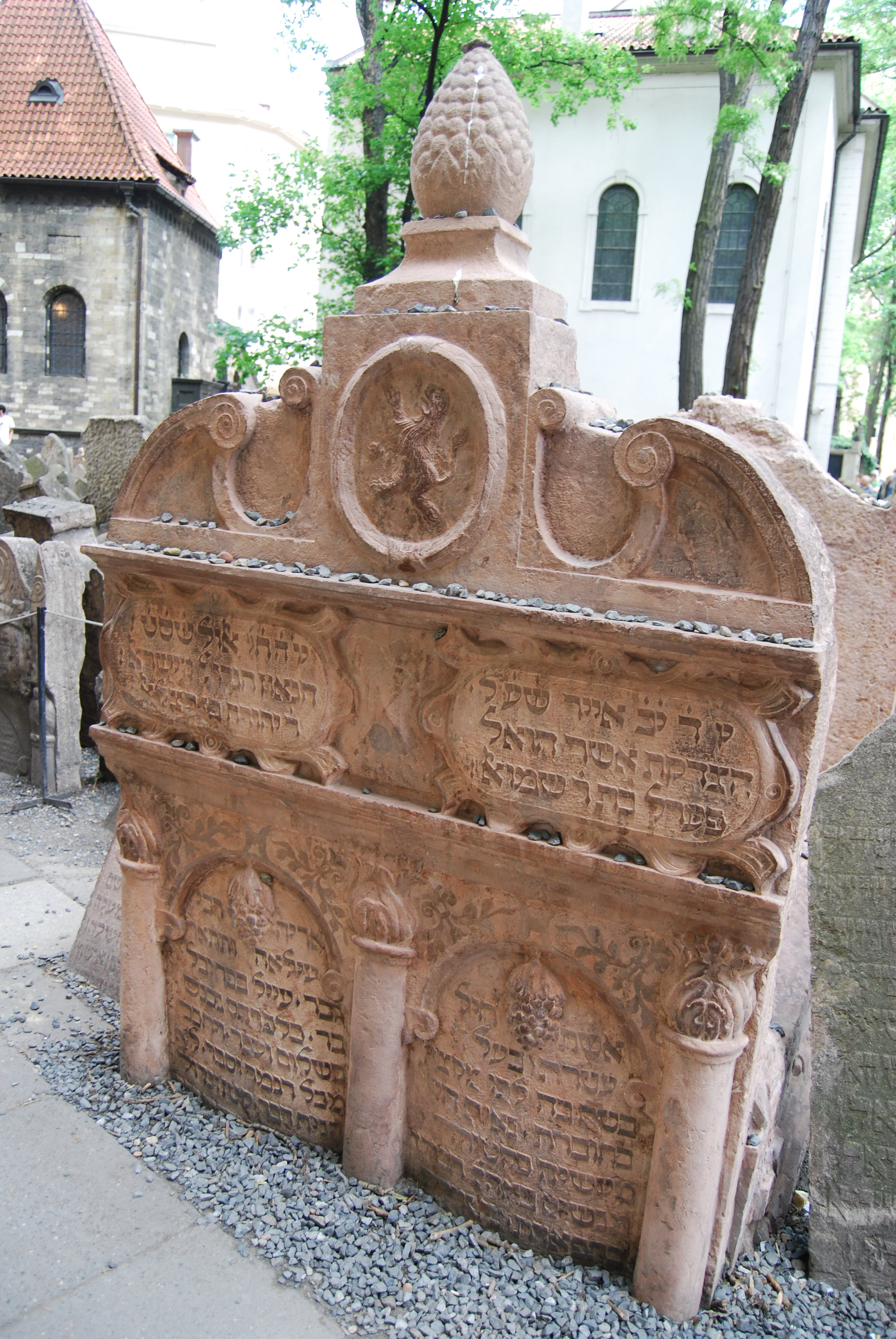 Tombstone of Judah Löw ben Bezaleel at Prague